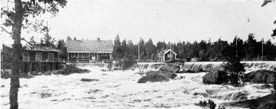 Swedish railway station Fröseke, Ruda-Älghults Järnväg